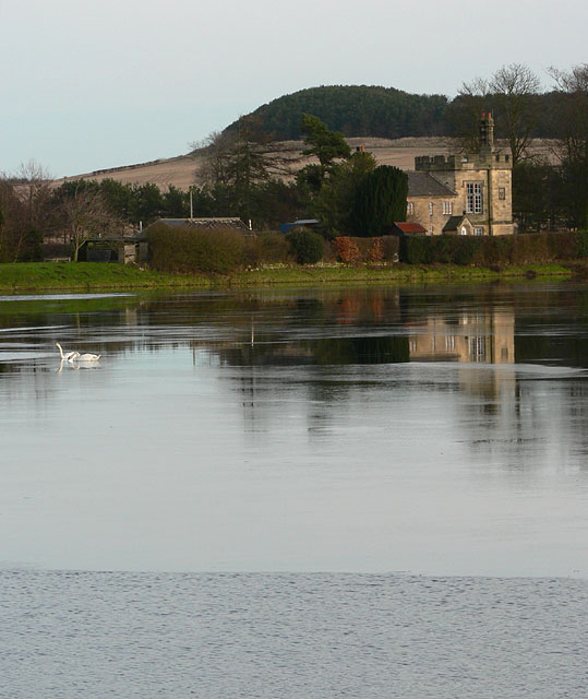 Whittle Dean Reservoir, Northumberland. This is the Western reservoir and is one of a series of connecting body's of water that make up Whittle Dean.